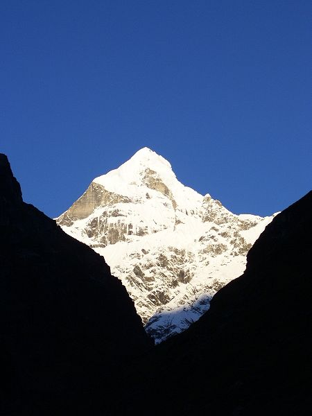 View of Mt. Nilkanth from Badrinath